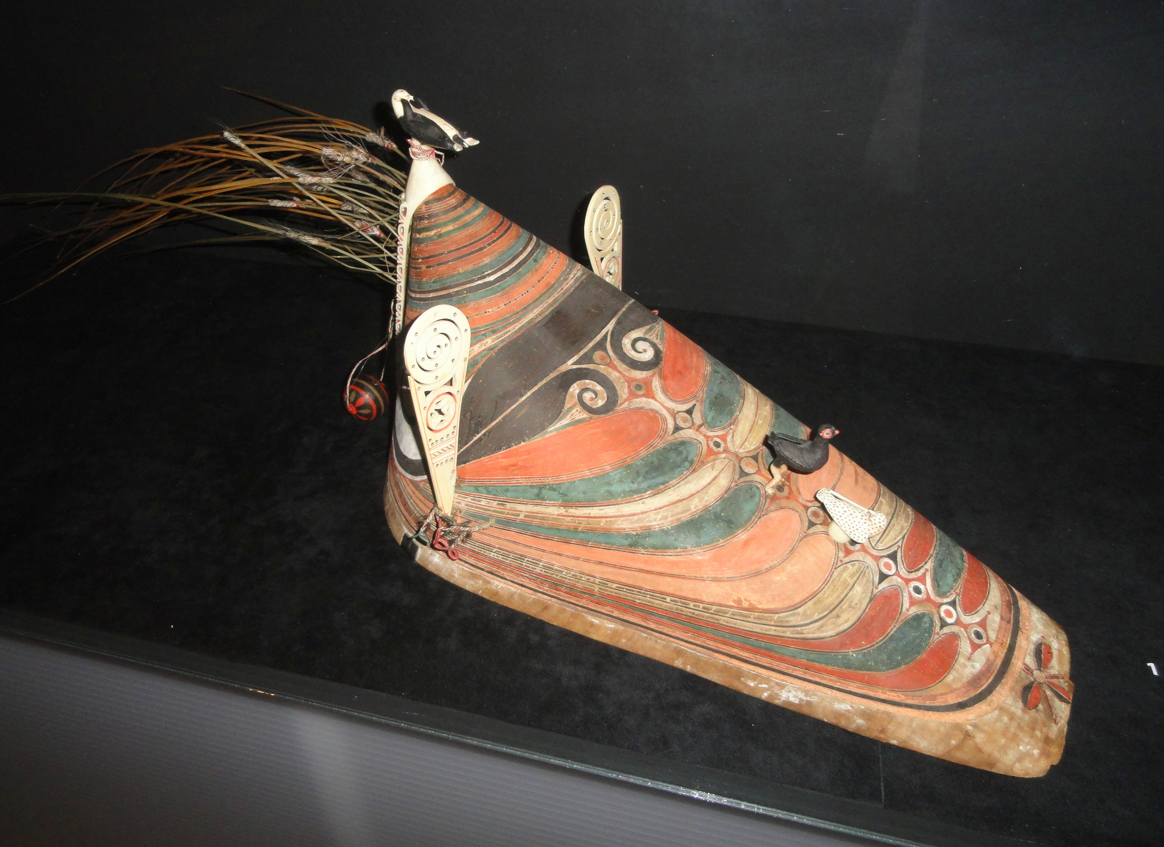 Exhibit in the Arvid Adolf Etholén collection, Museum of Cultures, Helsinki, Finland.